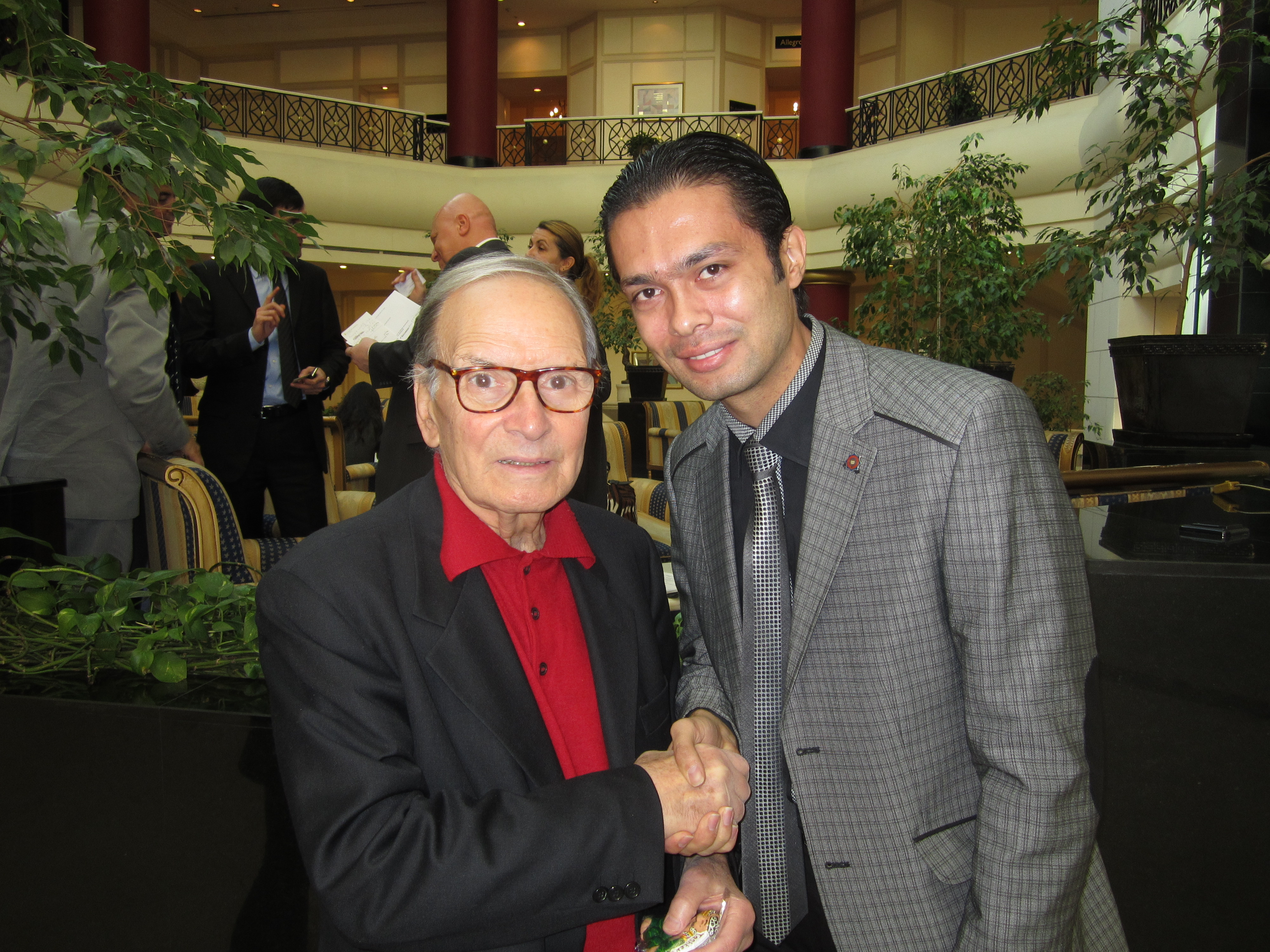 Ennio Morricone and Otabek Mahkamov